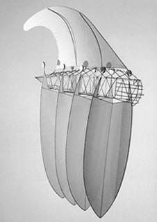 K.H.4 Brass construction with textiles (batiste) Length: 4,6 ft., width 1 ft., height 4,2 ft.